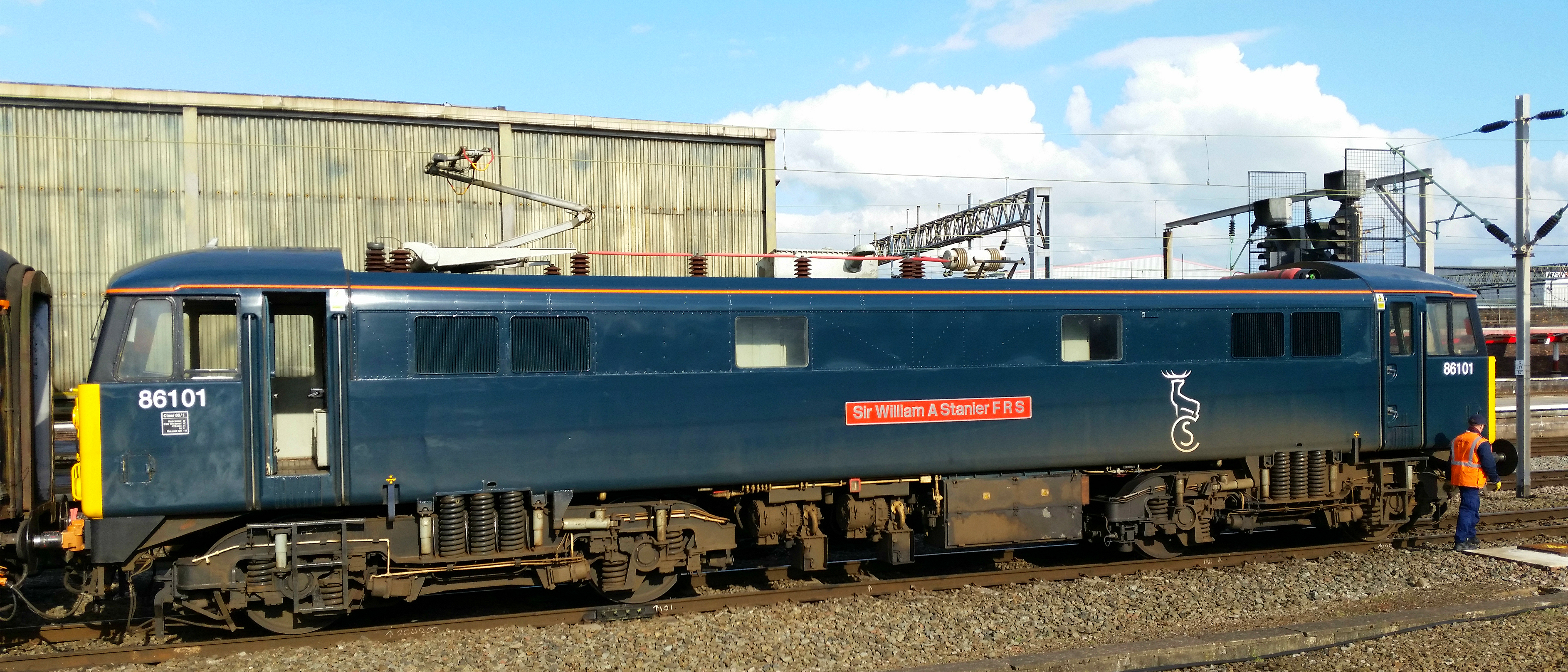 86101 Sir Wiliam A Stainer FRS in Caledonian Sleeper livery is seen paused in Crewe, having brought in empty coaching stock from a football charter.